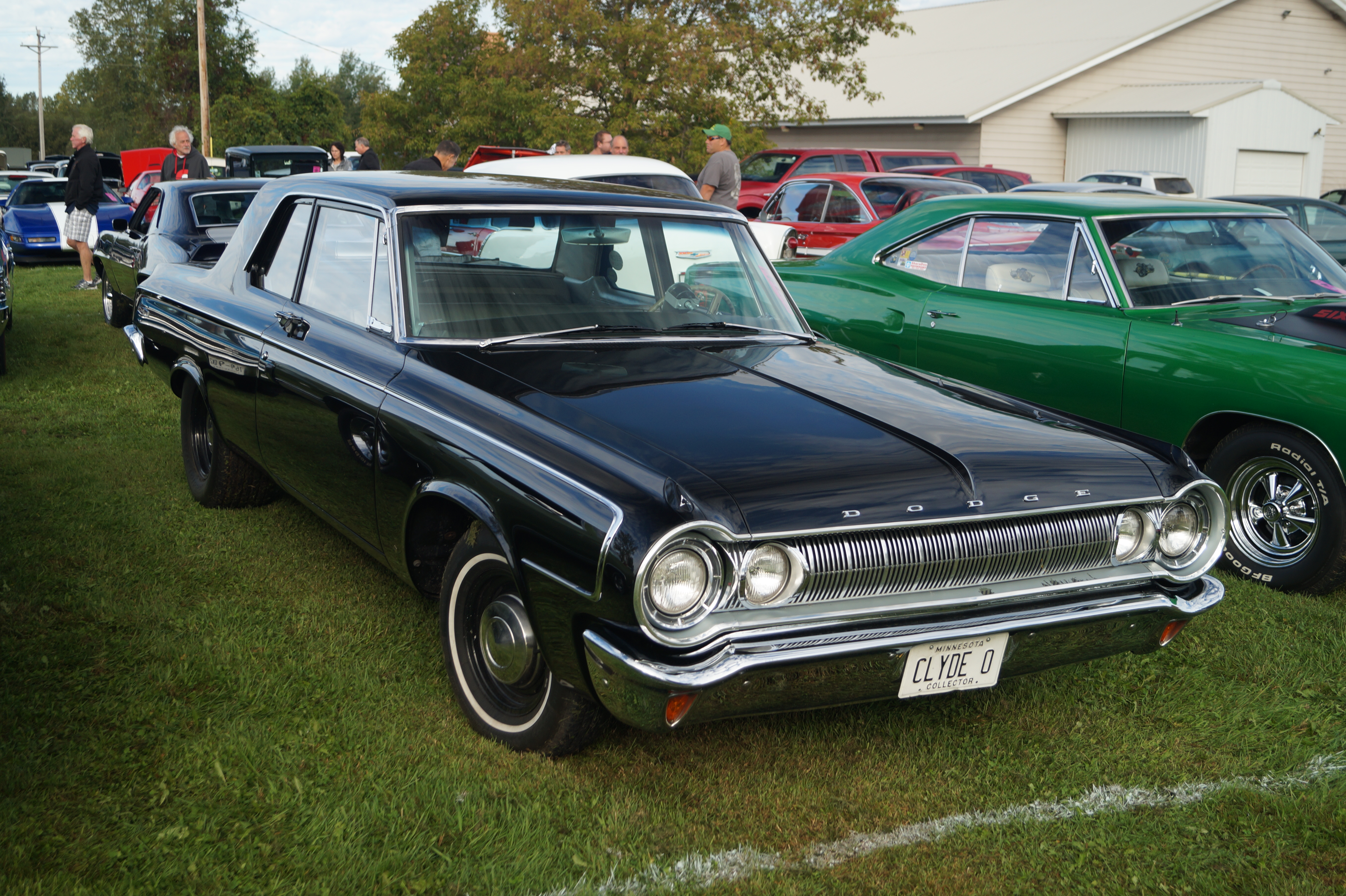 28th Annual Pig Roast & Car Show September 20, 2015 Northern Lights Car Club Blacksmith Lounge Hugo, Minnesota Click here for more car pictures at my Flickr site.